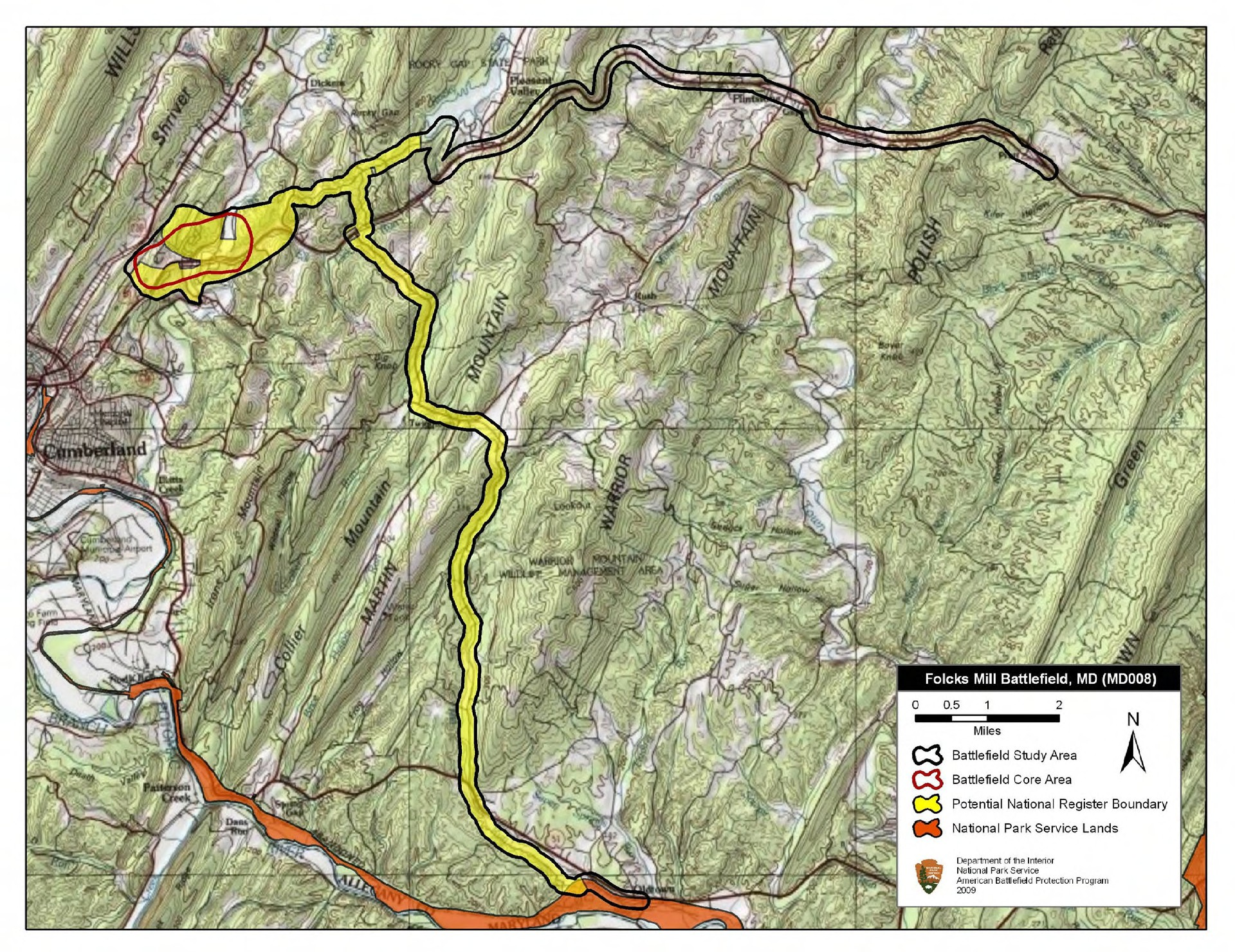 Map of battlefield core and study areas. The revised boundaries include the route taken by Confederate cavalry brigades towards Cumberland, the area of skirmishing where Union soldiers and Cumberland citizens ambushed Confederate cavalrymen, and the Confederate route of withdrawal.